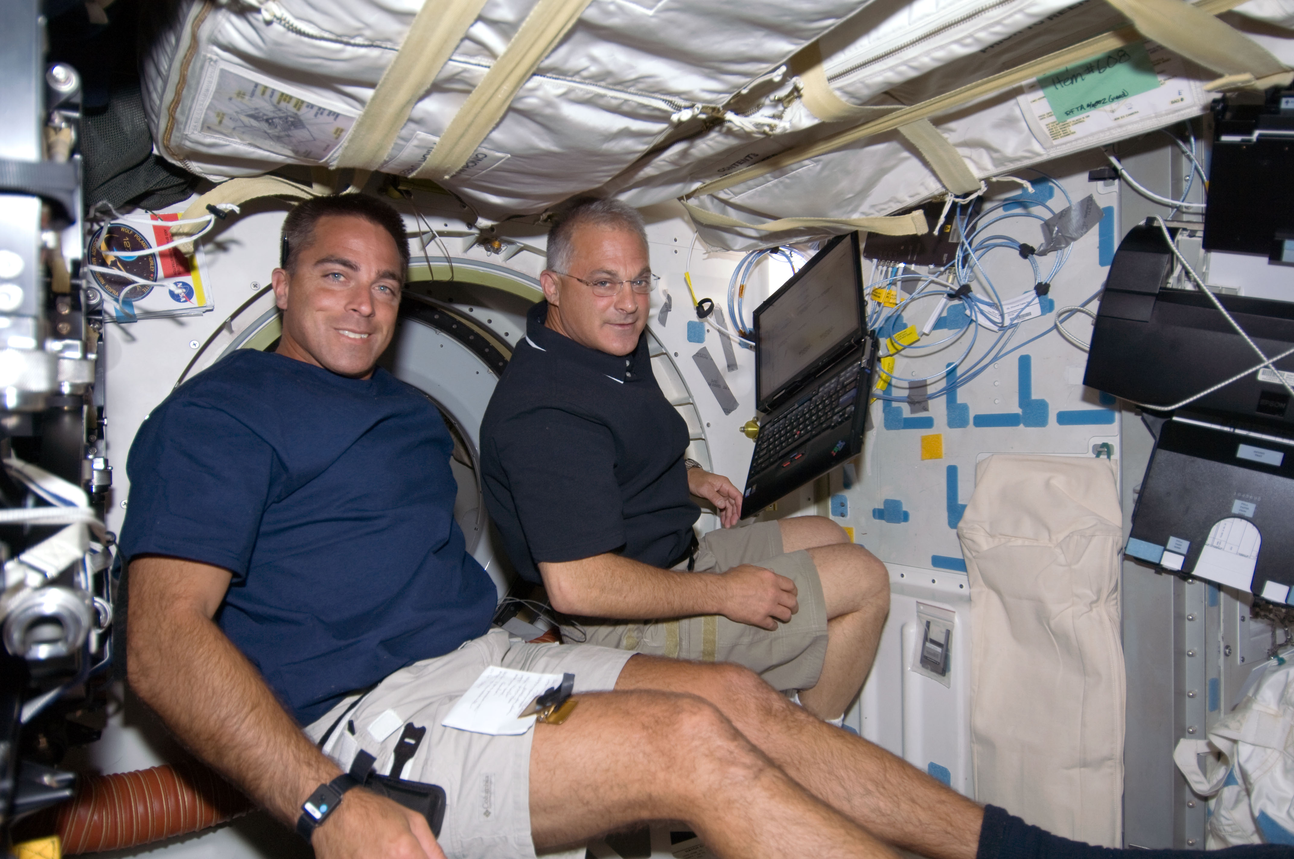 On Endeavour's mid deck, astronauts Christopher Cassidy (left) and Dave Wolf, both STS-127 mission specialists, may be talking over their upcoming shared space walk, scheduled for flight day 8. The extravehicular activity they share will be the third and final EVA session in a week's time for Wolf and it will be the first of three for Cassidy.